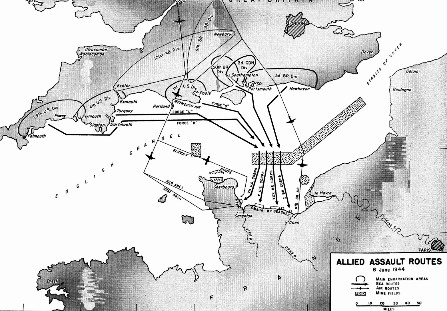 D-day allied assault routes From Center for Military History, US Army Originally prepared as part of the US Military History: Utah Beach To Cherbourg